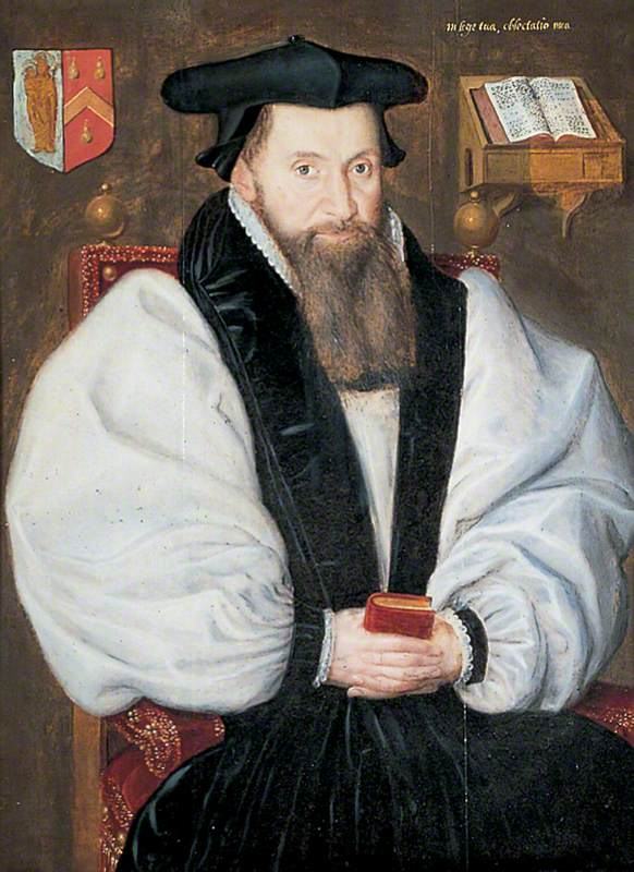 Robert Abbot (1560-1617), Bishop of Salisbury